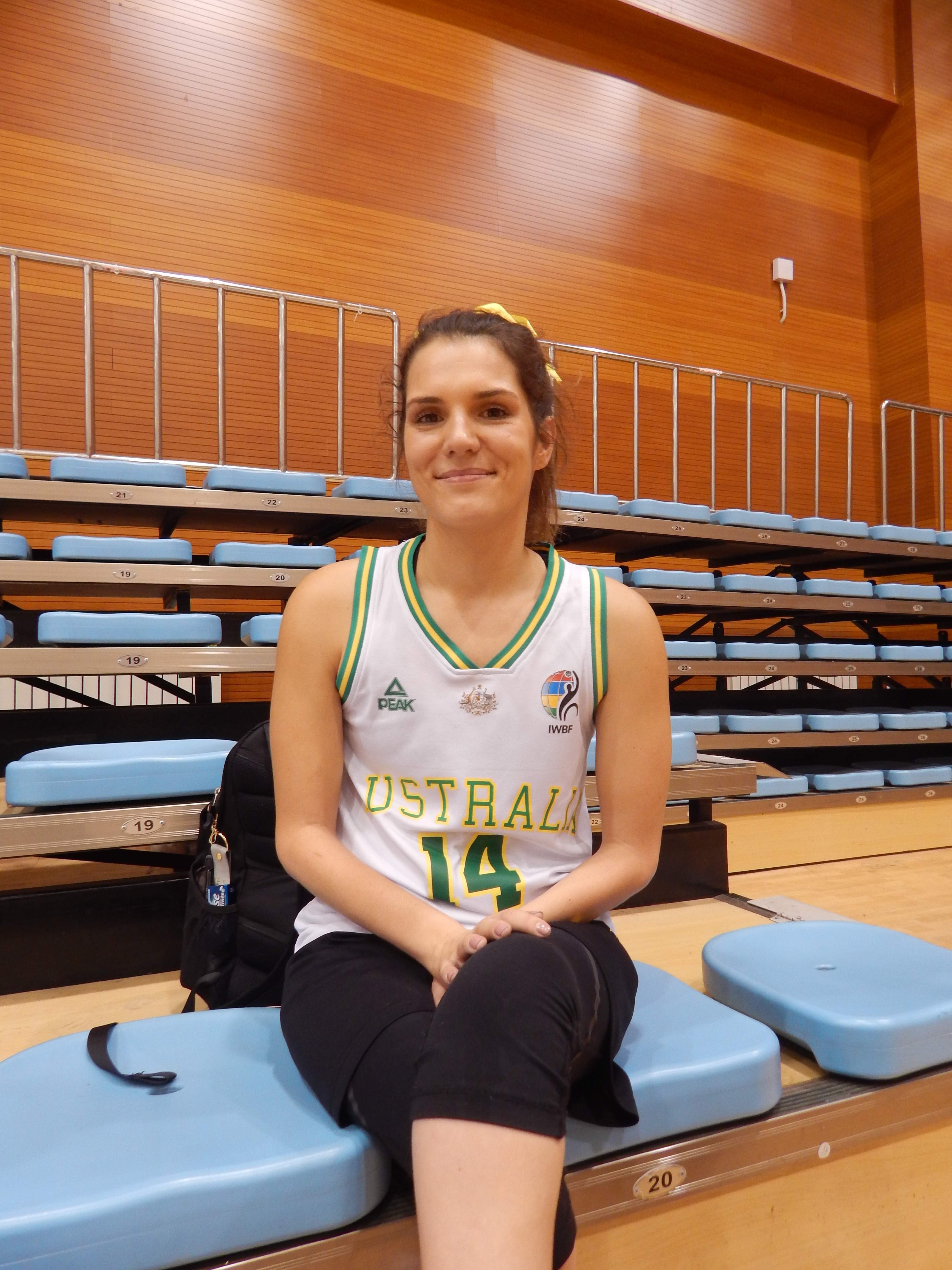 Ella Sabljak of the Australian Gliders at the 2017 IWBF Asia-Oceania Zone Championships in Beijing